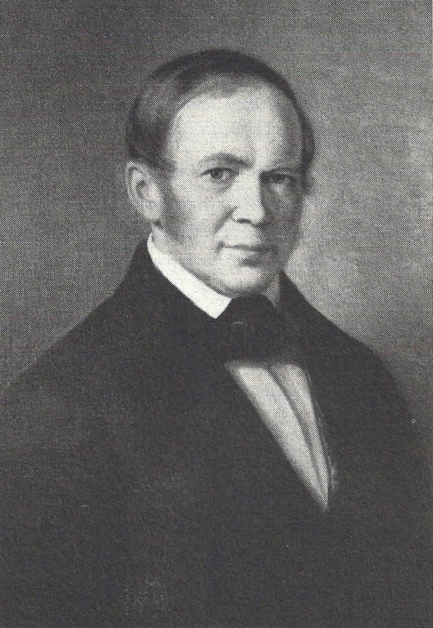 Eberhard Friedrich Walcker, German organ builder